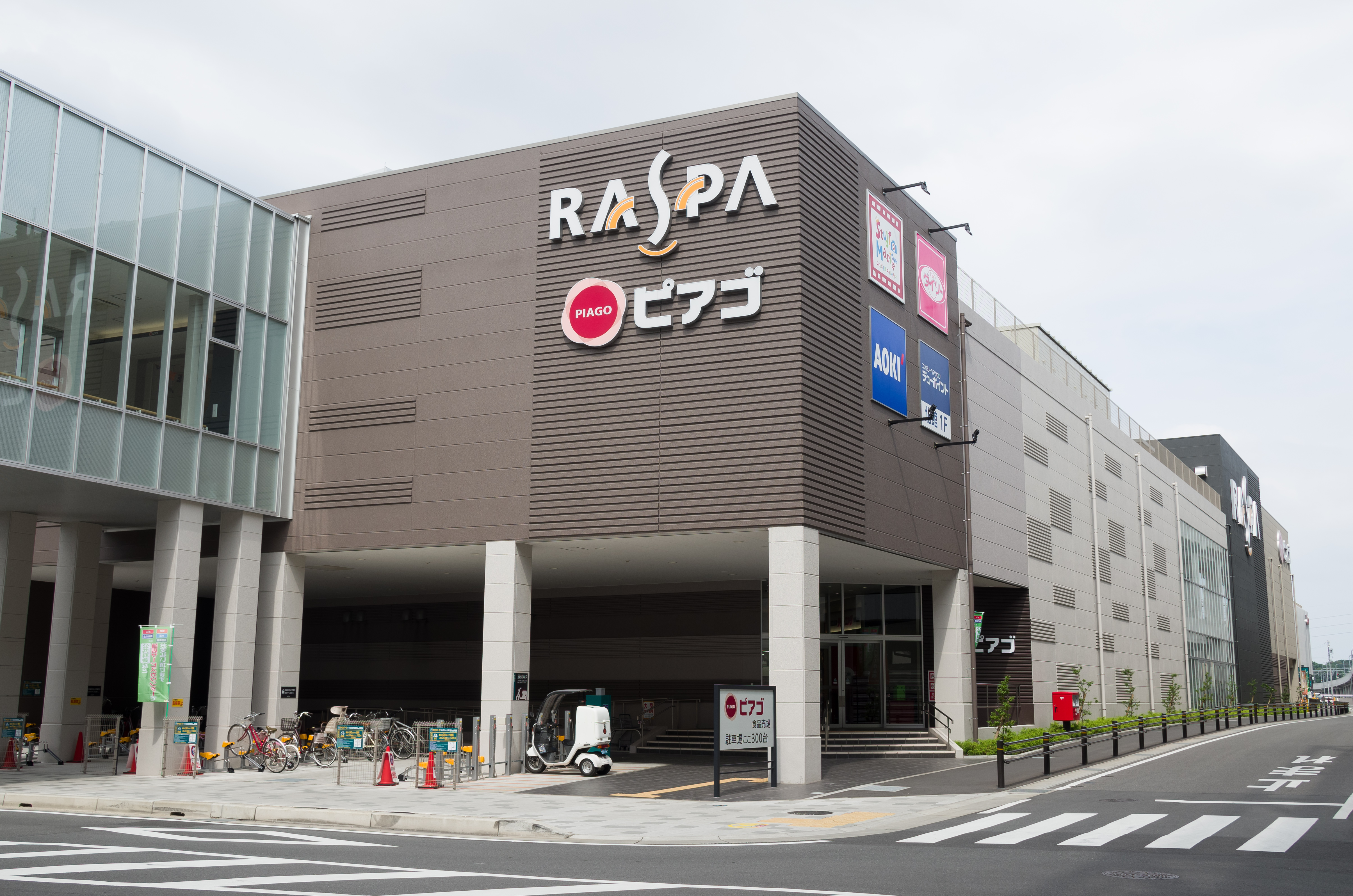 RASPA Otagawa (North Building), The shopping center which is located in Tokai City, Aichi, Japan.